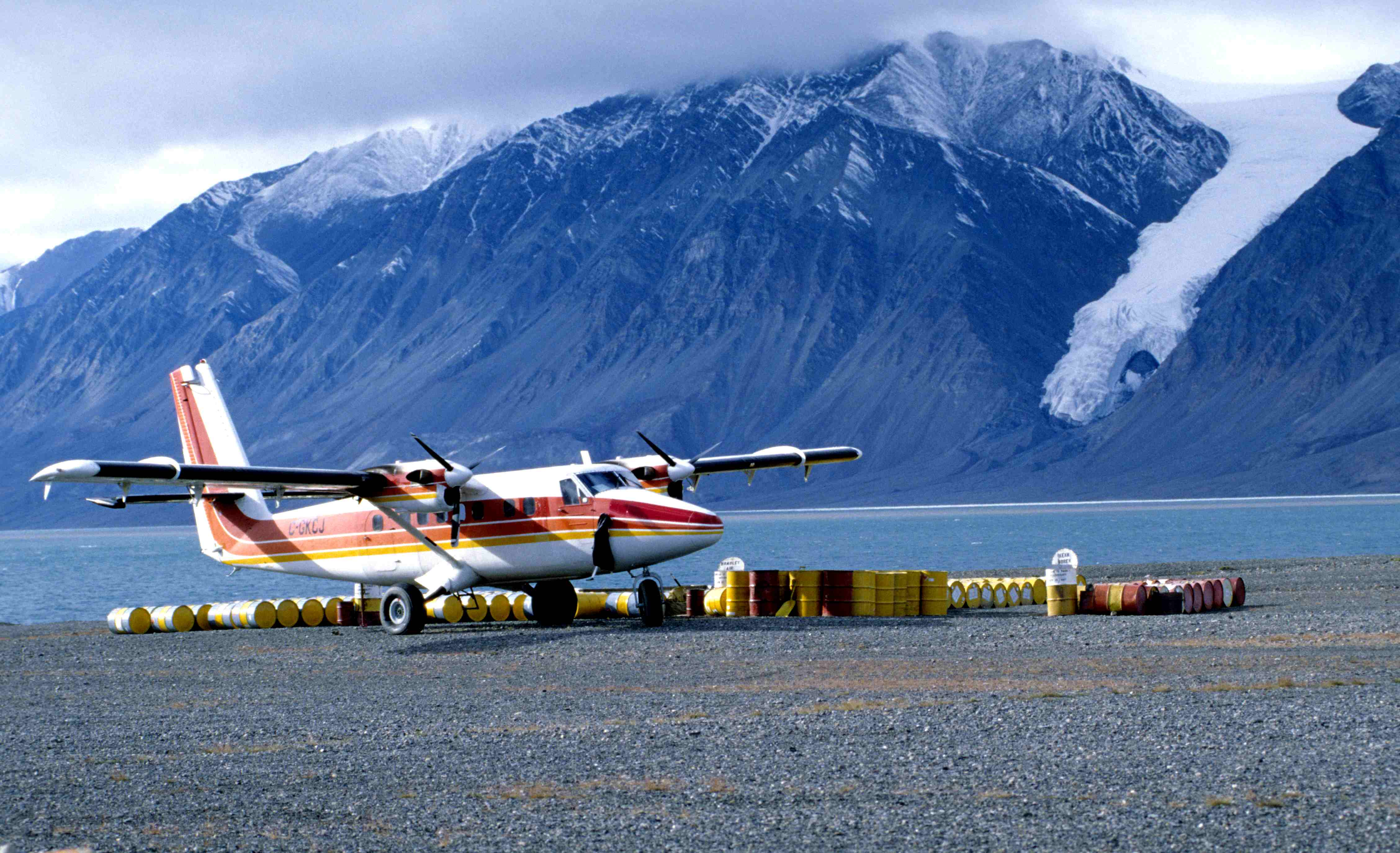 De Havilland Canada DHC-6 “Twin Otter” (C-GKCJ) at Tanquary Fiord (Quttinirtaaq National Park, Nunavut, Canada)